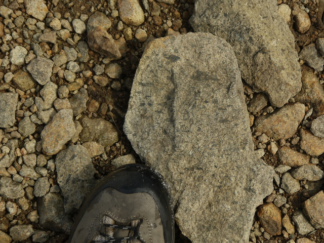 A piece of the Helvellyn Tuff Formation on Catstye Cam, showing flattened lapilli